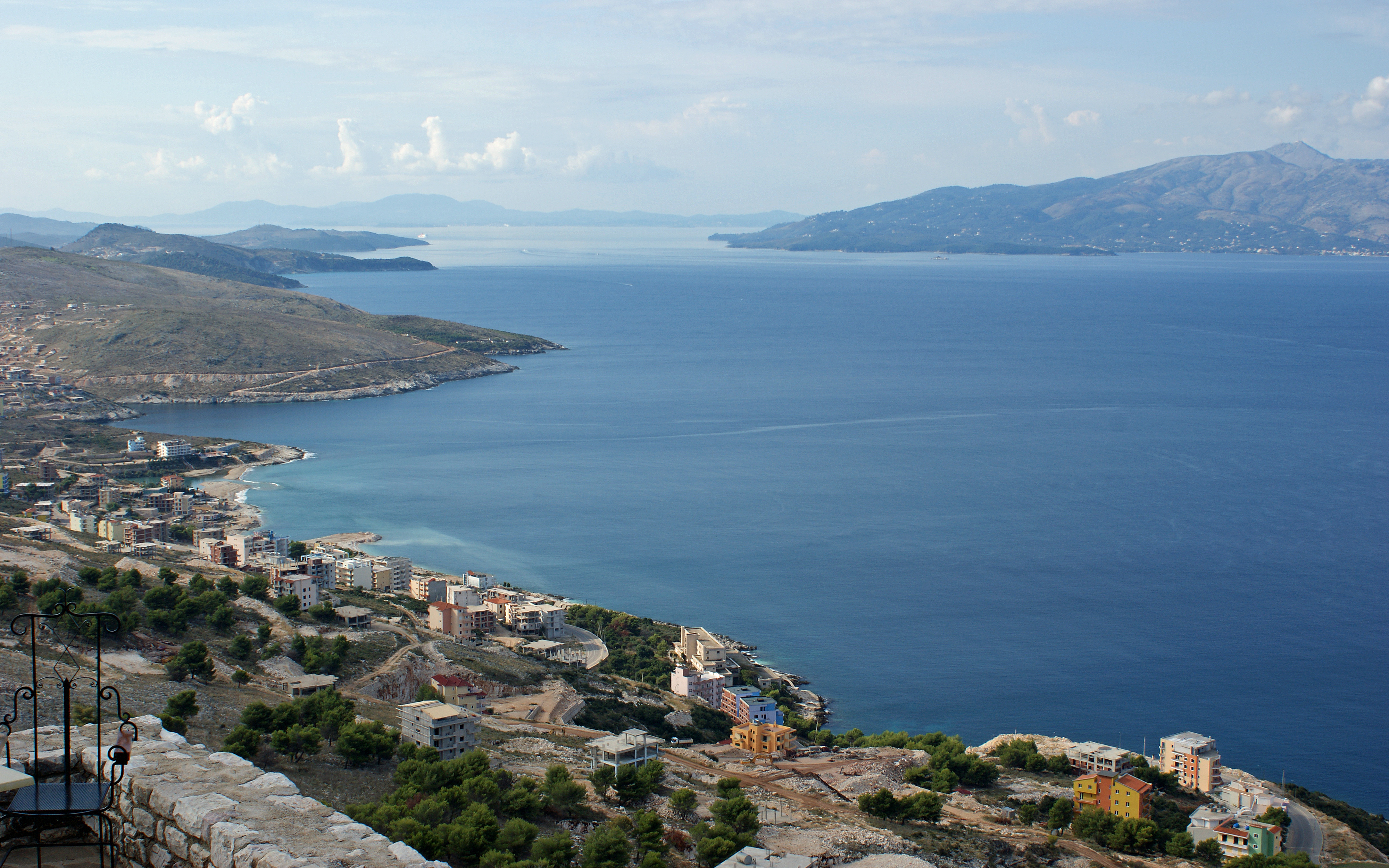 Straits of Corfu as seen from Saranda, Albania, looking south. To the right the island of Corfu with Mount Pantokrator, in the distant the southern Part of the island with the town of Kerkyra, on the left the Albanian coast line.